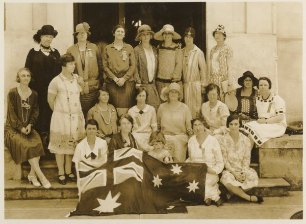 Delegates and accredited visitors to the First Women's Pan-Pacific Conference, Honolulu, August 1928 [picture]